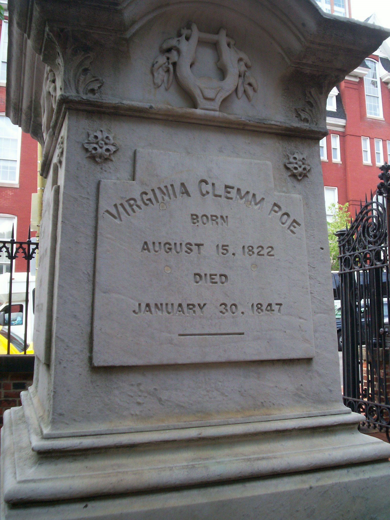 Poe Monument at Westminster Hall and Burying Ground, Baltimore, MD. It is also the burial spot of Edgar Allan Poe, his wife Virginia Clemm Poe, and her mother Maria Clemm. Seen from the left side, showing the inscription for Virginia Poe (inscribed in 1977).